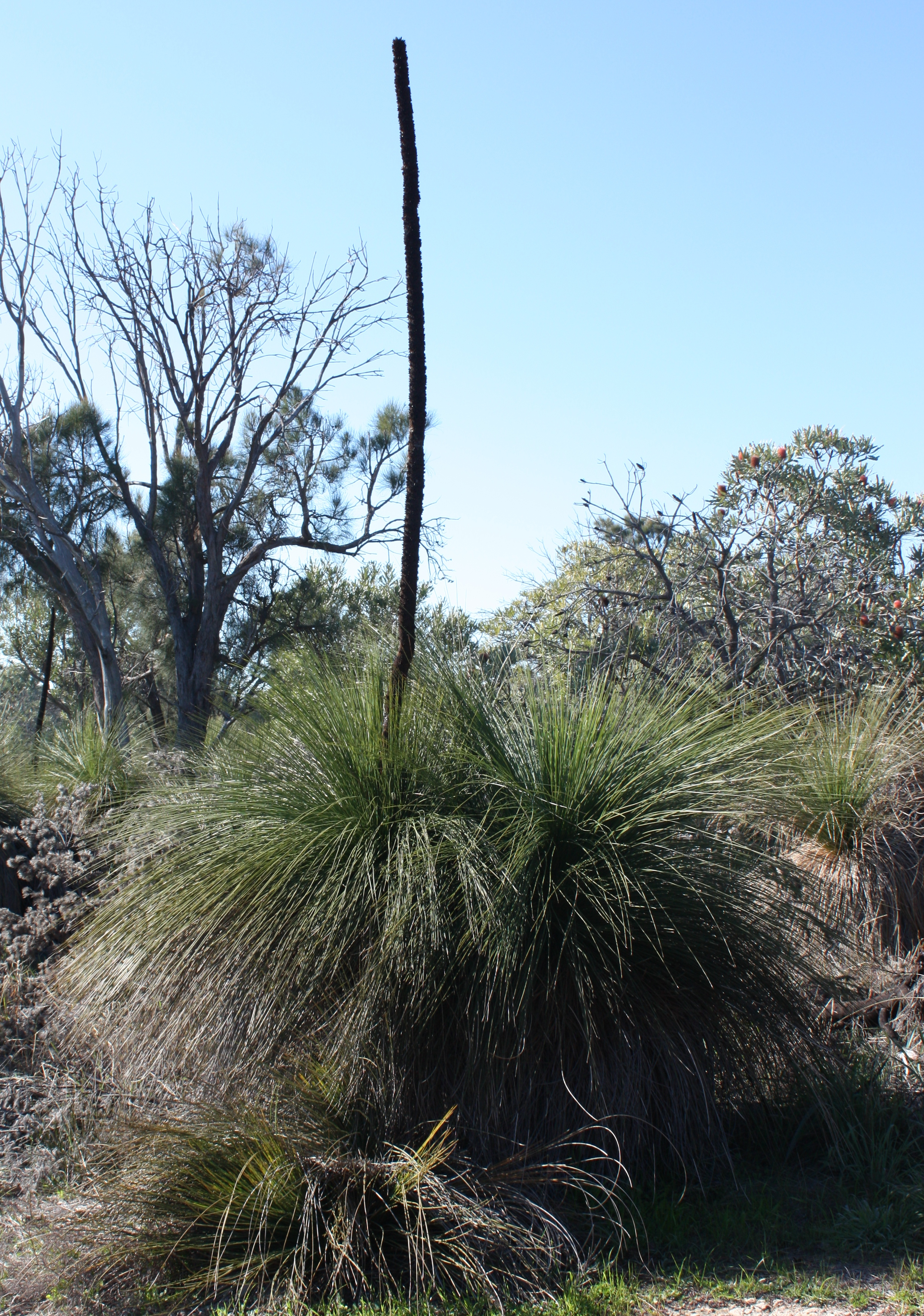 Xanthorrhoea preissii. Photo taken at Wireless Hill Park, Perth, Western Australia